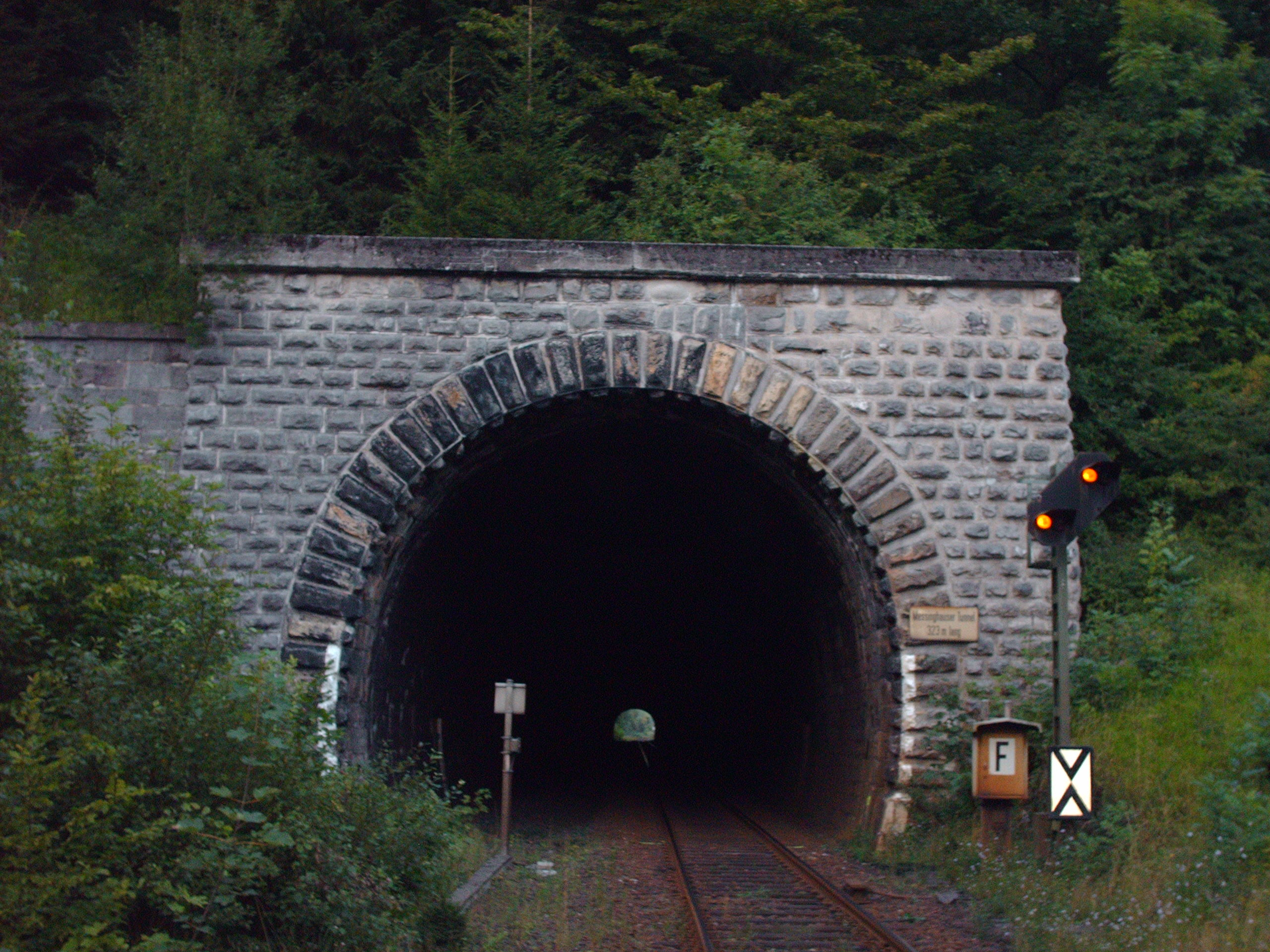 Messinghausen tunnel, Brilon, Germany check usage